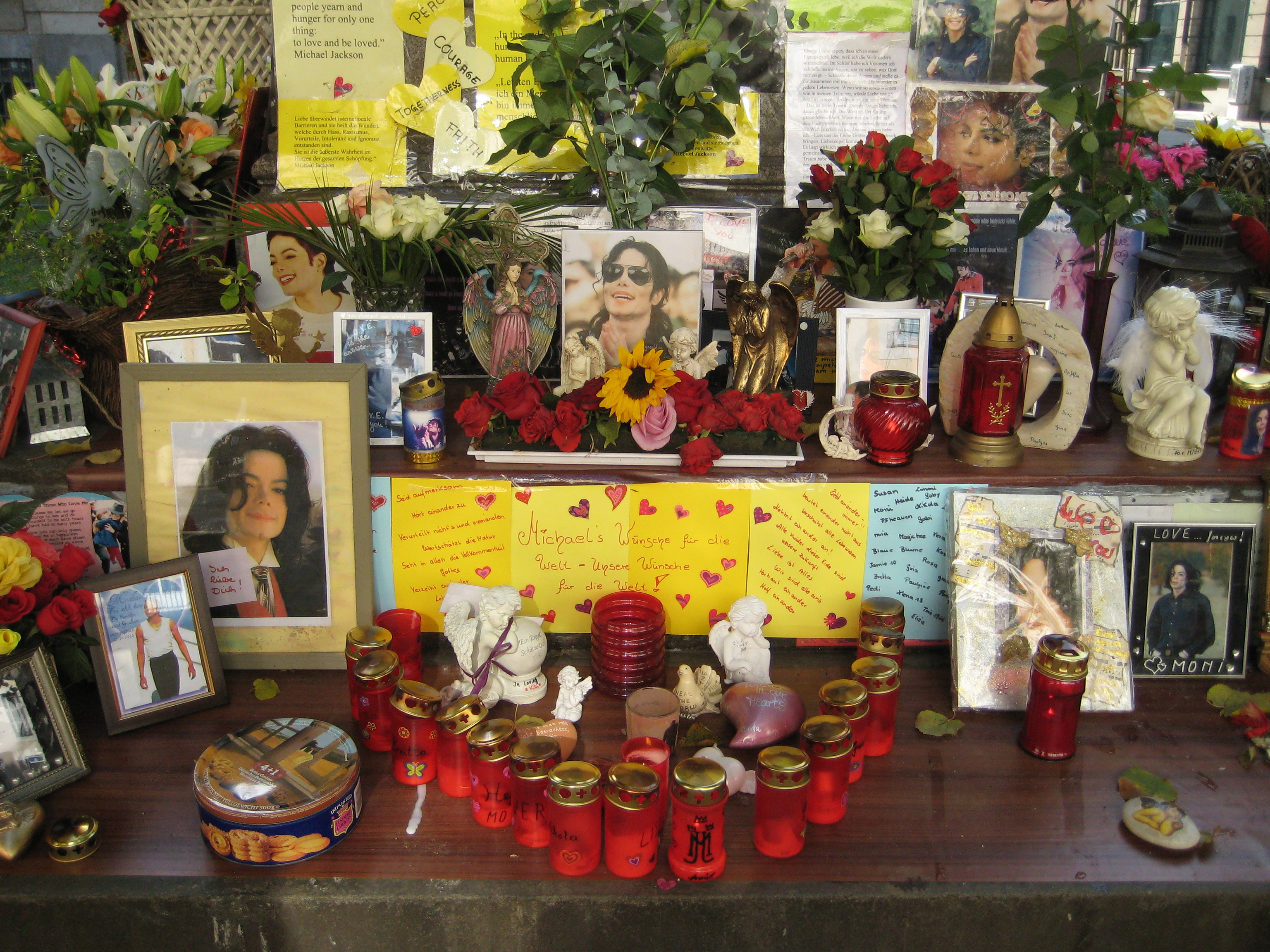 Michael Jackson memorial in Munich. State in October 30, 2011.